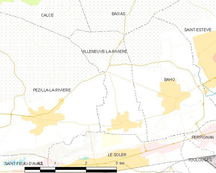 Map of French municipality